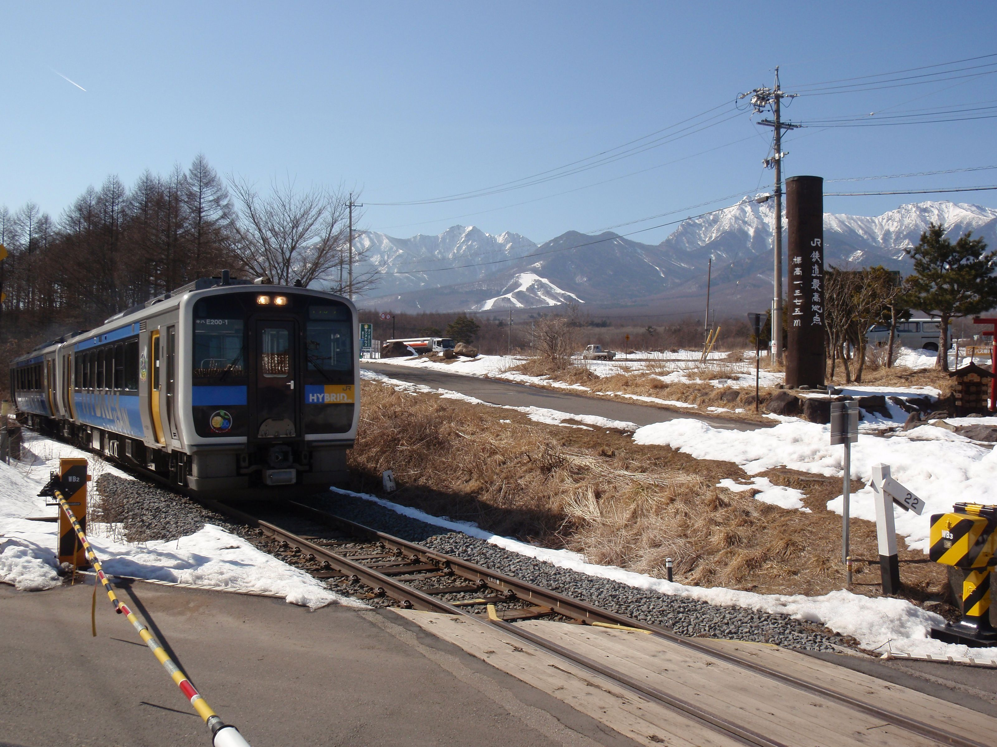 DMU E200 series of East Japan Railway co. at the highest point in railway of JR group.